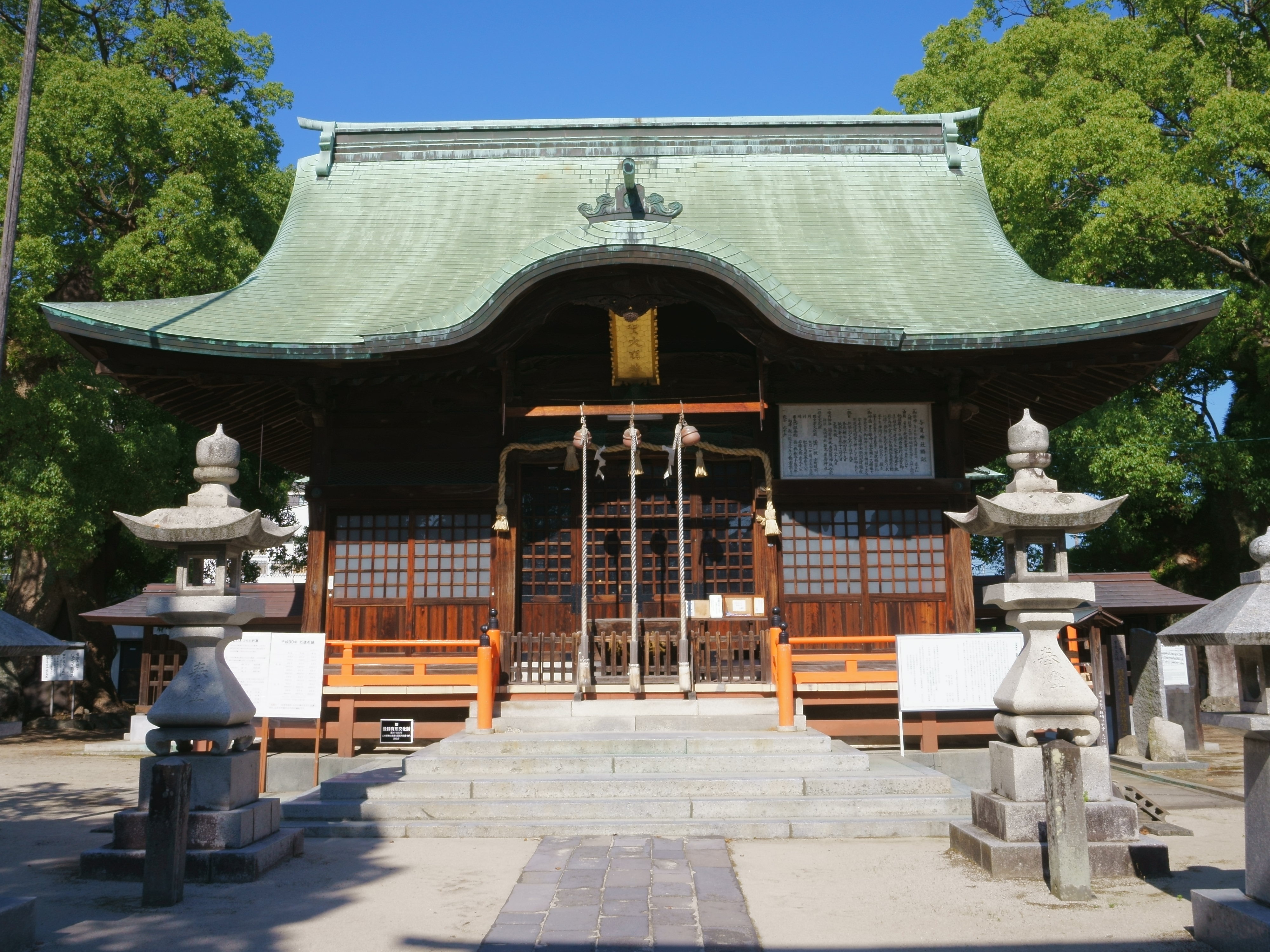 Worship Hall(Haiden) of Yoka-jinja Shrine, Saga city, Saga prefecture. It built in 1759.